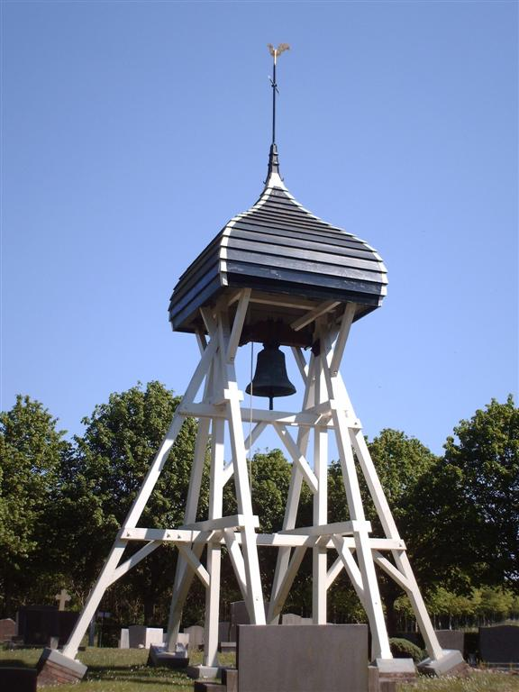 wooden bell tower in Ruigehuizen, Friesland, Netherlands